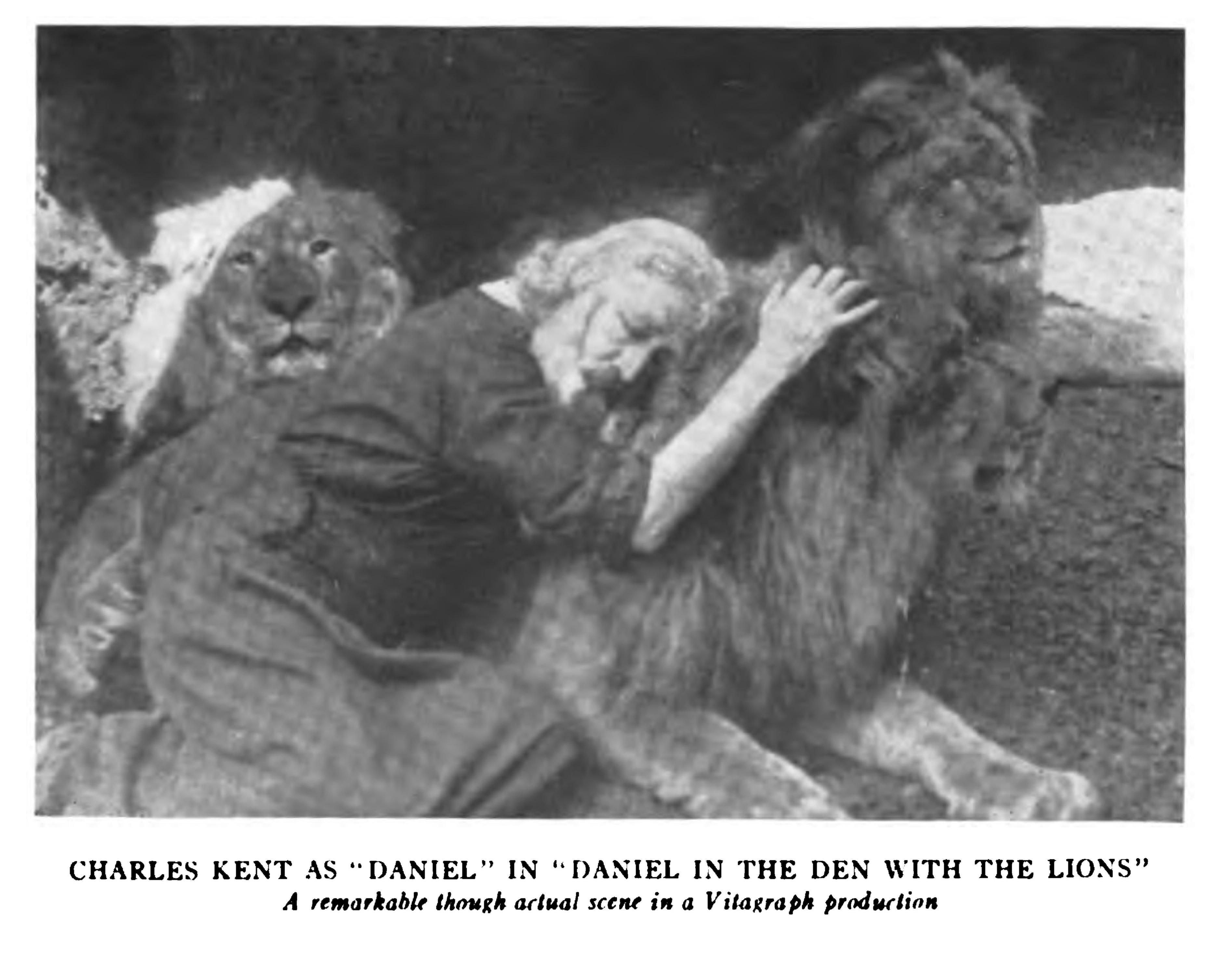 Charles Kent (18 June 1852 – 21 May 1923) was a British-born American silent film actor and director. Daniel with the Lions or Daniel (1913)